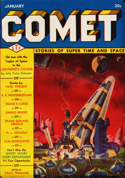 Cover of January 1941 issue of Comet Stories. Cover art is by Frank R. Paul.